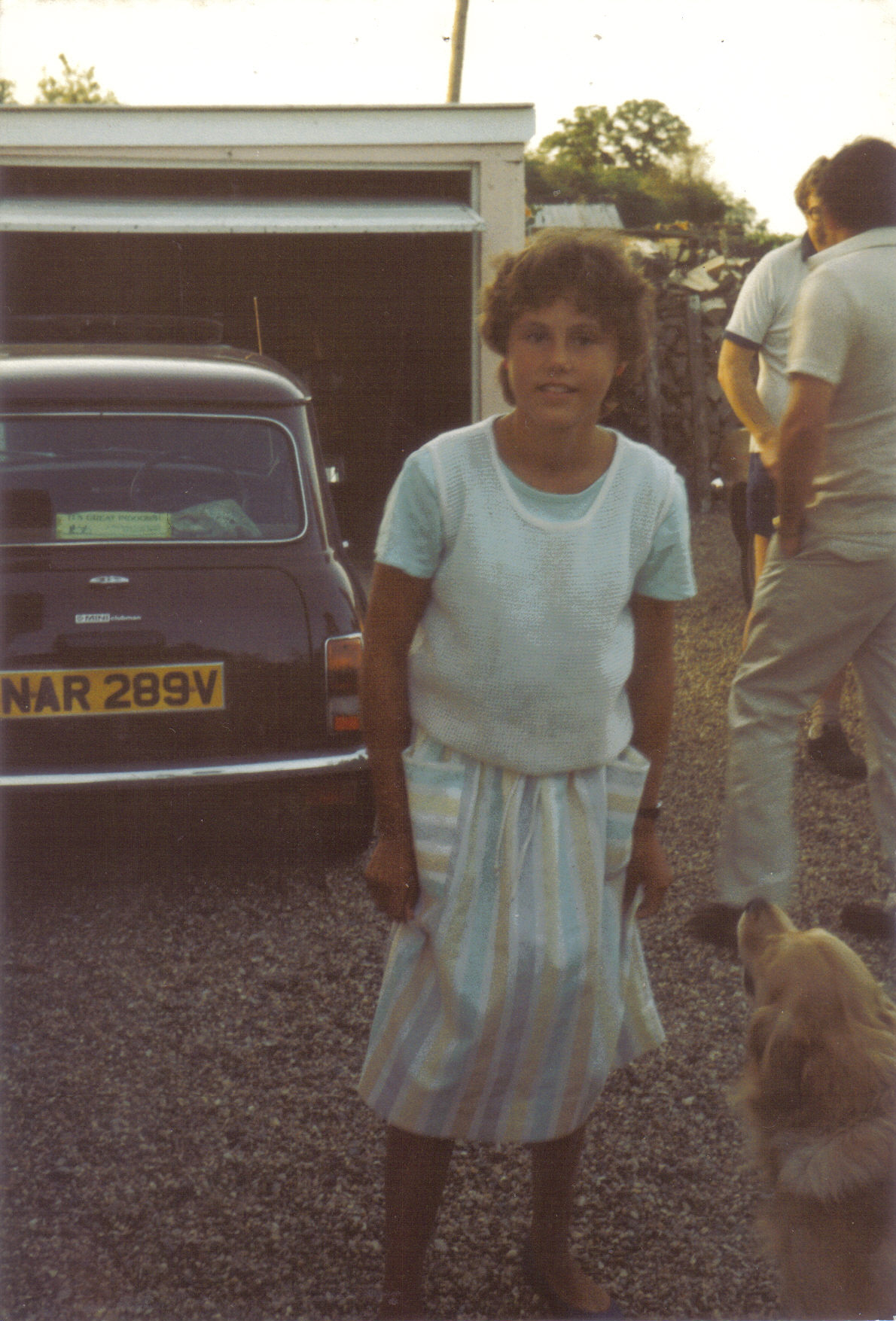 Sheila Nicholls 1983 visiting Friends in Colchester wearing a Skirt